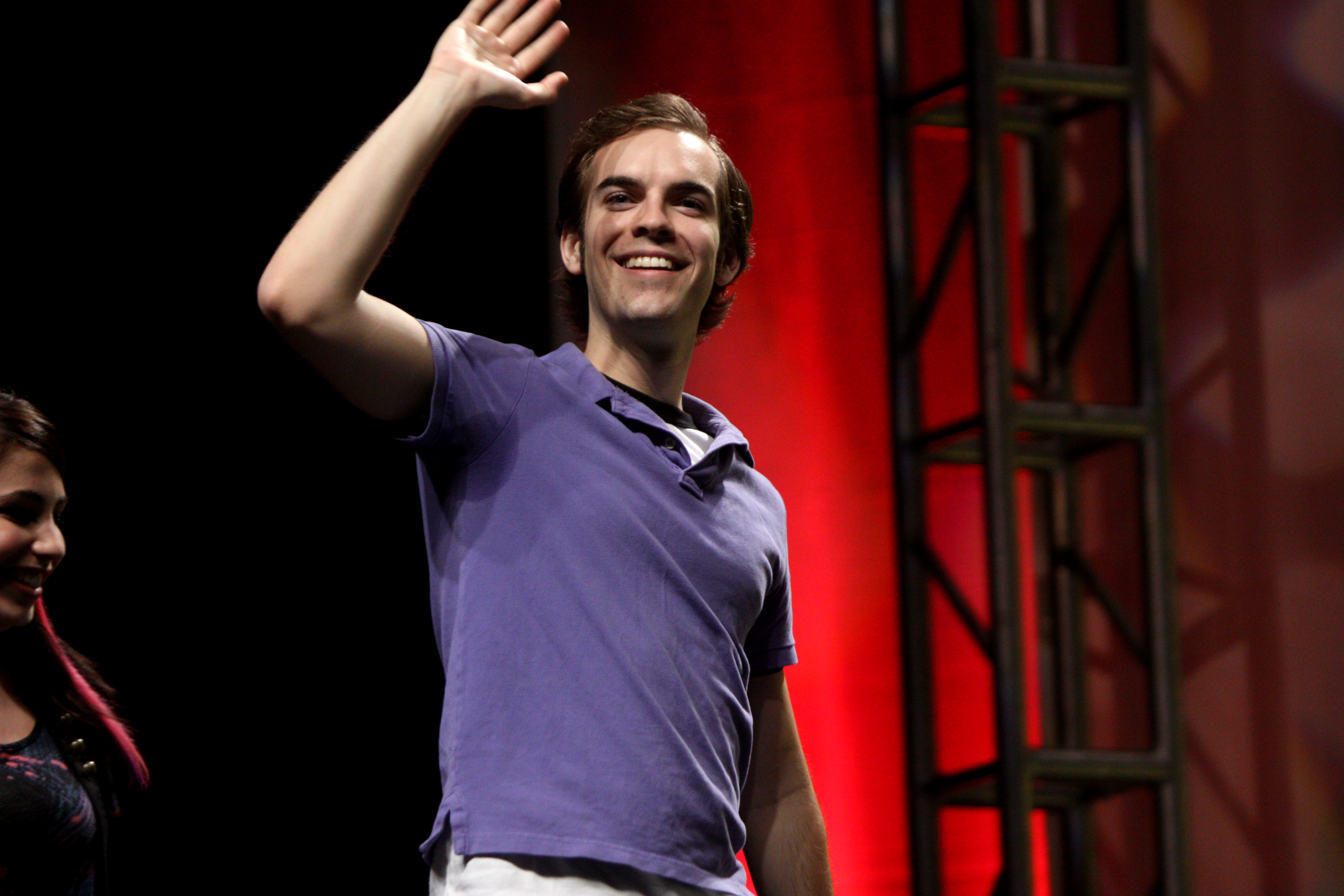 Intern 2 of MyMusic speaking at VidCon 2012 at the Anaheim Convention Center in Anaheim, California.